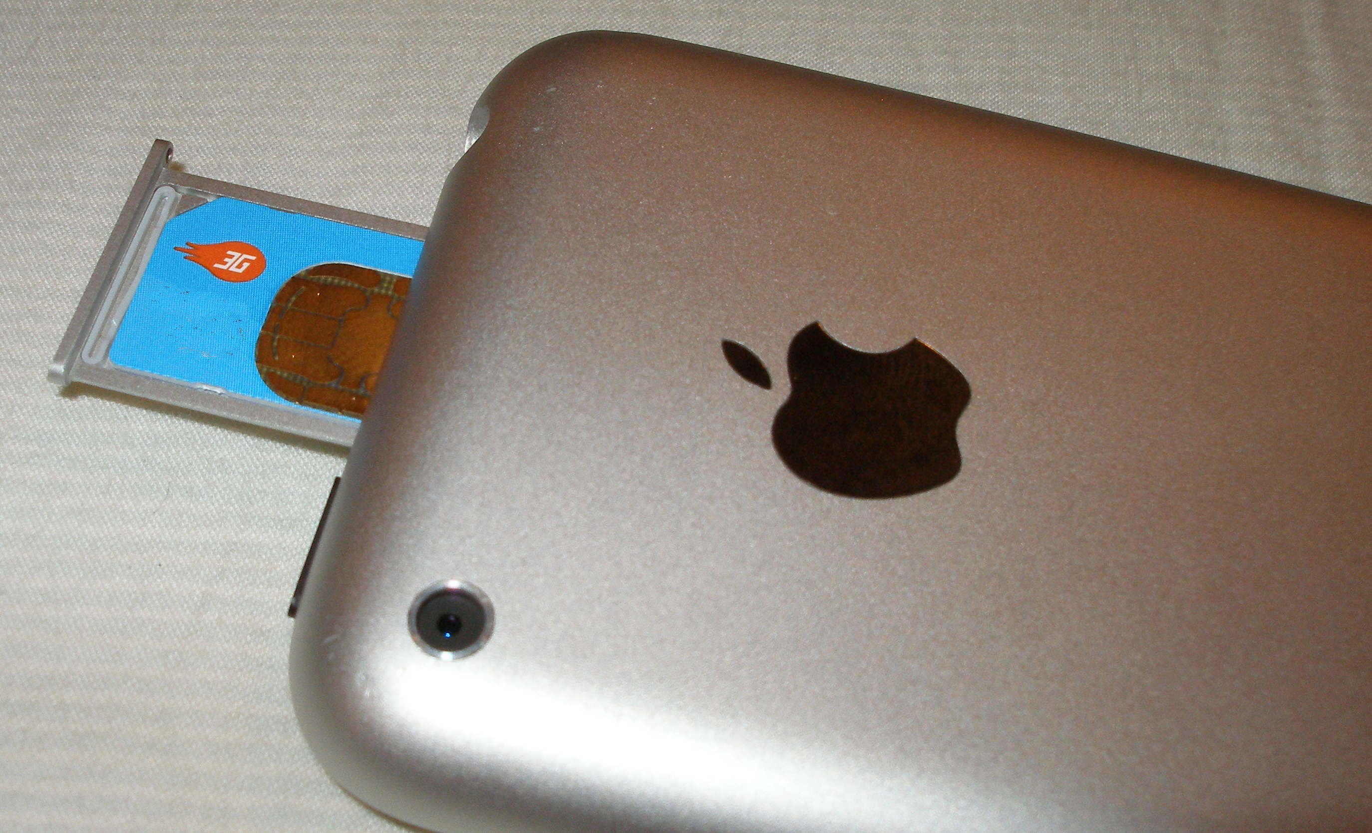 I took this photo of my iPhone (1st generation) and its SIM slot.